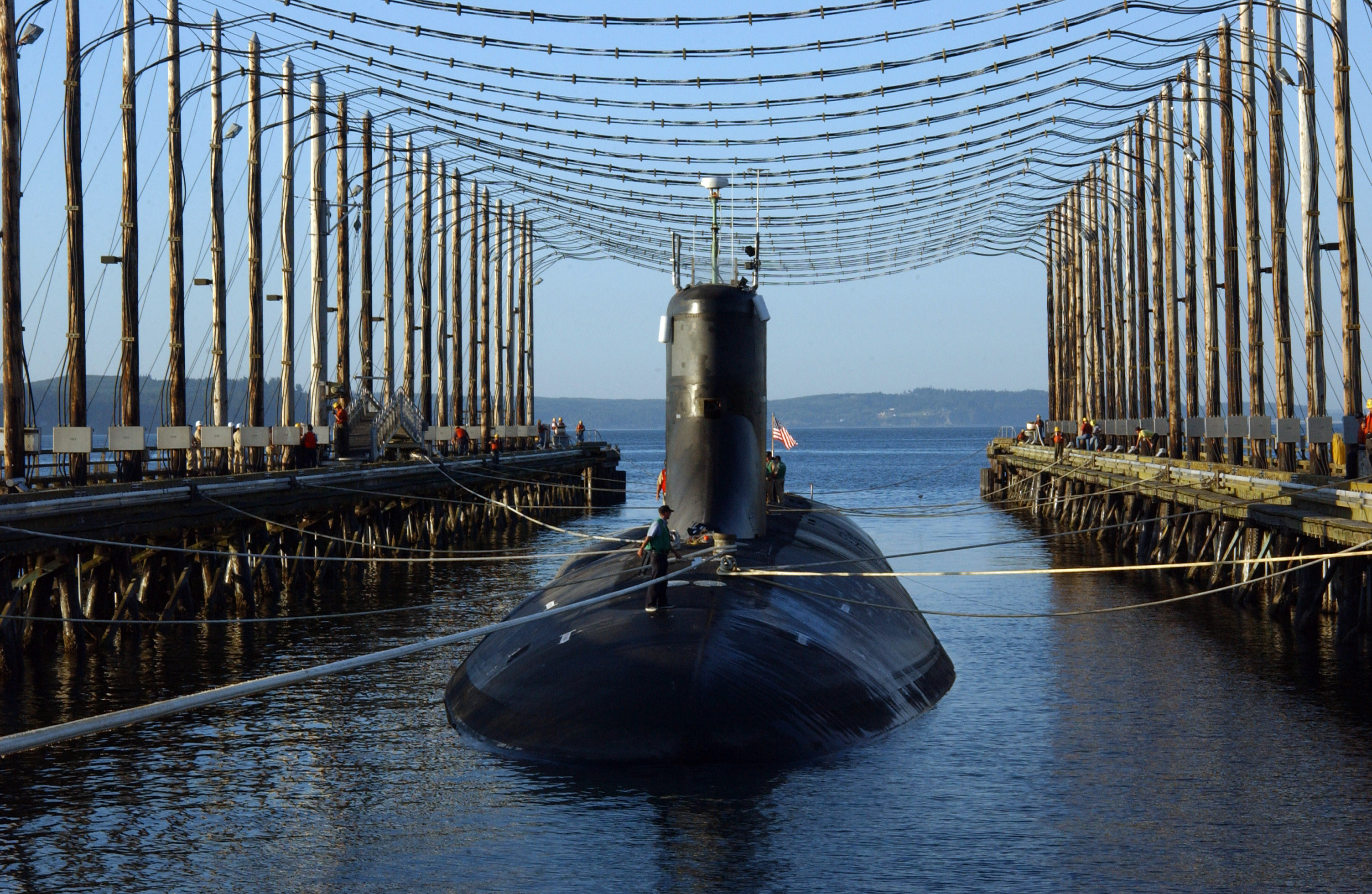 The Sea Wolf-class attack submarine USS Jimmy Carter (SSN 23) sits moored in the Magnetic Silencing Facility at Naval Base Kitsap Bangor for her first deperming treatment. The deperming process reduces a ships electromagnetic signature as she travels through the water. Jimmy Carter is the third and final submarine of the Sea Wolf-class. A unique feature of the Jimmy Carter is a 100-foot hull extension called the Multi-Mission Platform, which provides enhanced payload capabilities, enabling the submarine to accommodate the advanced technology required to develop and test a new generation of weapons, sensors and undersea vehicles.